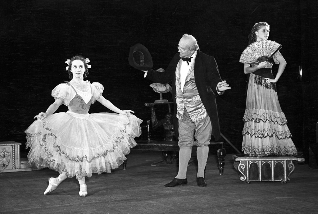 “O. Lepeshinskaya, A. Radunsky, and I. Vasilieva in scene from Leo Delibes' ballet "Coppelia"”. Olga Lepeshinskaya (Swanilda), Alexander Radunsky (Coppelius) and I. Vasilieva (Spaniard Doll), in a scene from Leo Delibes' ballet "Coppelia." The State Academic Bolshoi Theatre.